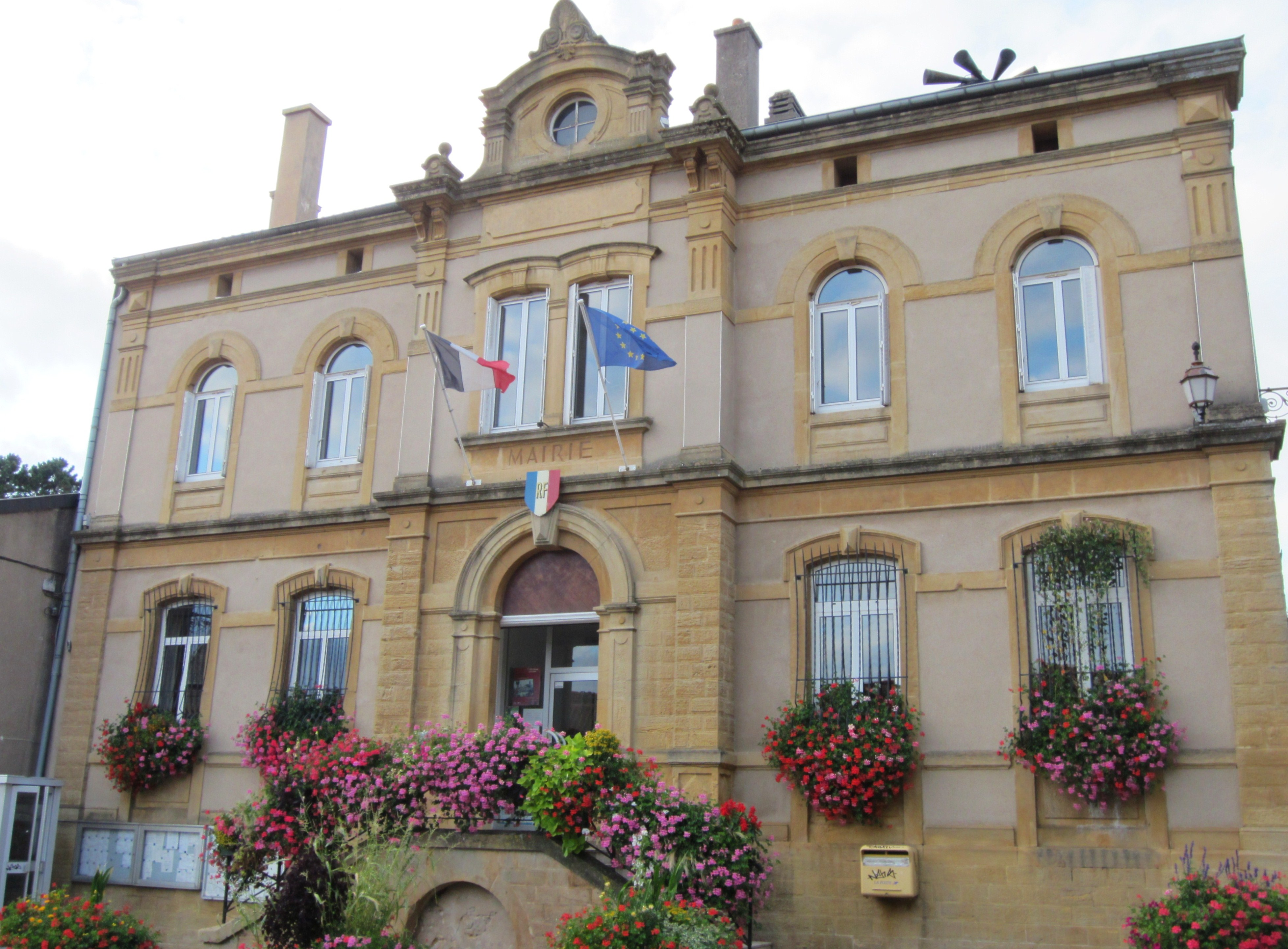 Description mairie Scy Chazelles Date13 September 2011Sourcemon appareil photoAuthorAimelaimePermission(Reusing this file) mairie Scy Chazelles